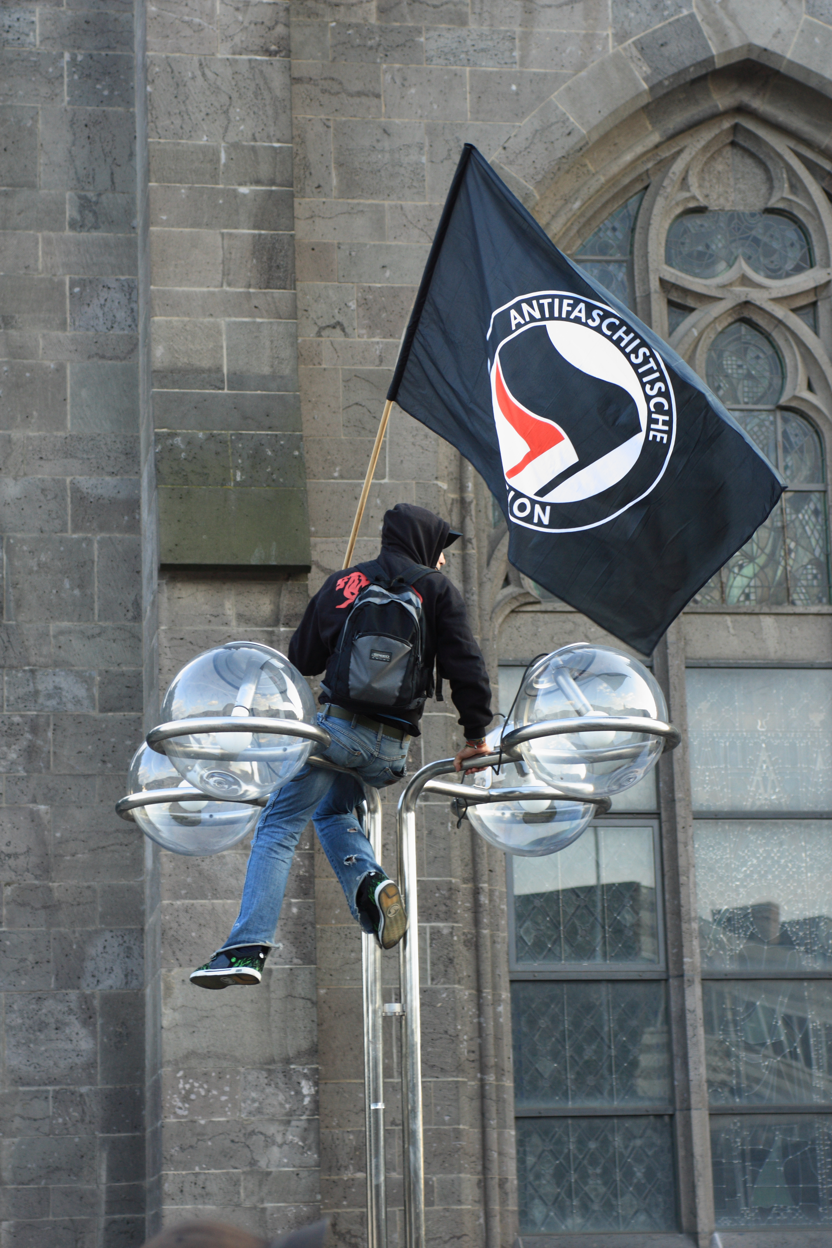 Antifa at the cologne cathedral.